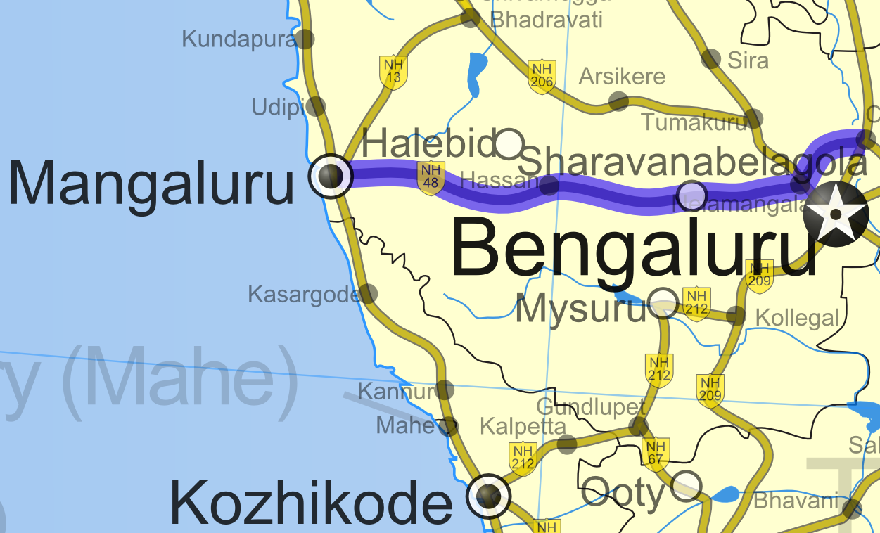 National highway 48 in India